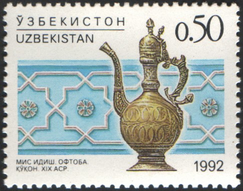 Stamp of Uzbekistan 1992. Author - Post of Uzbekistan.